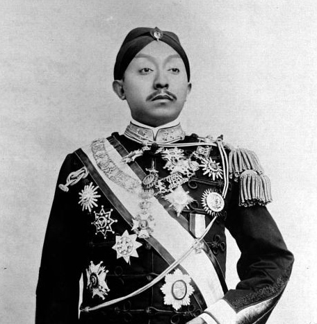 Negative. Portait of the 10th Susuhunan of Surakarta